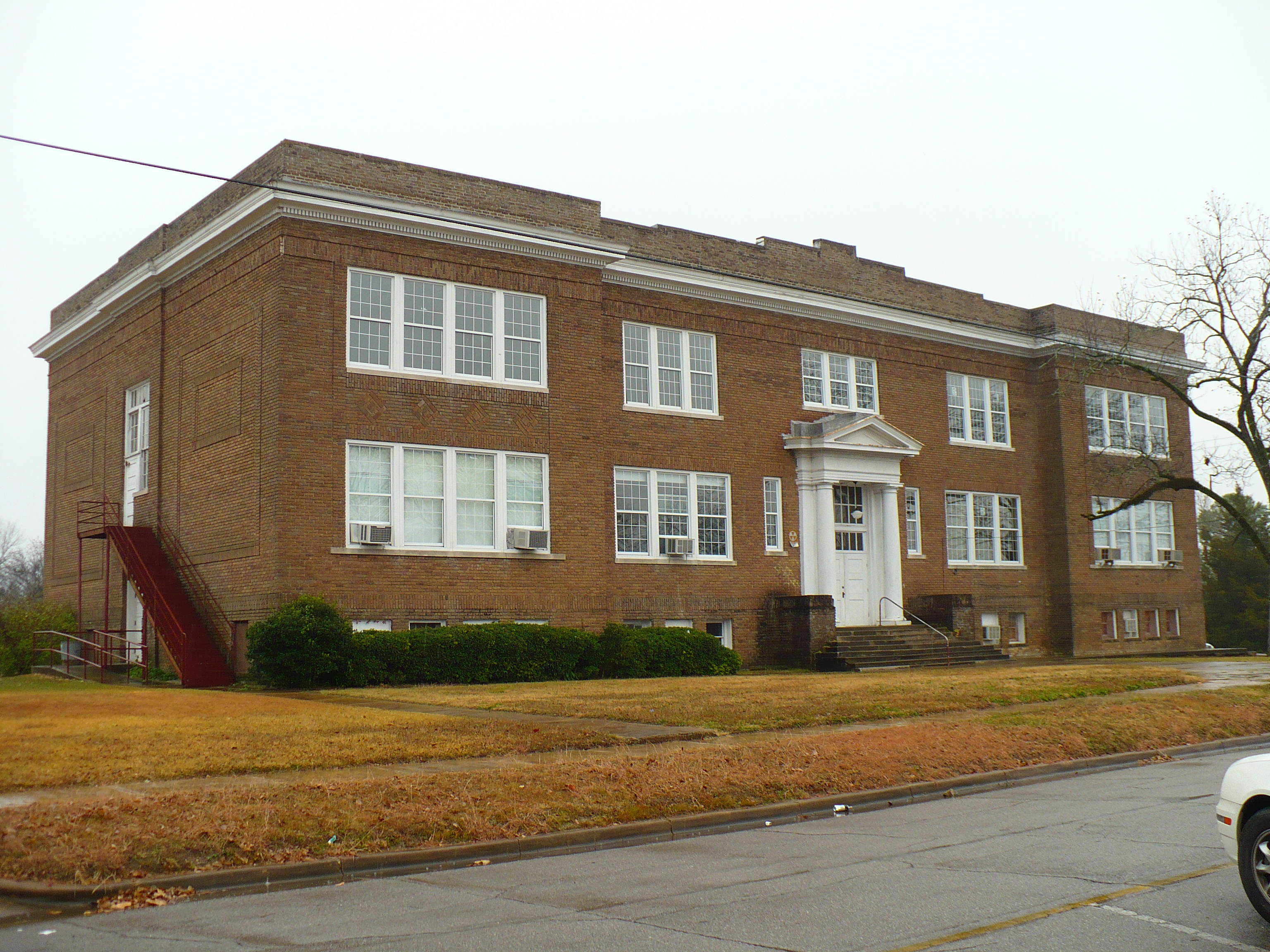 The old Demopolis Public School in Demopolis, Marengo County, Alabama.